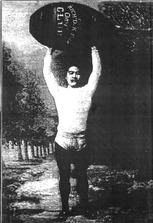 Sorakichi Matsuda, from undated Police Gazette article